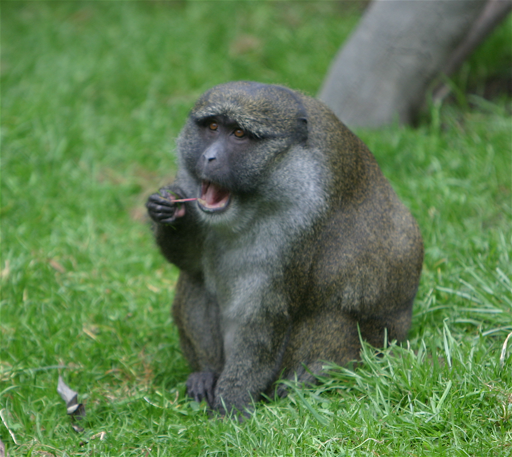 Allen's Swamp Monkey (Allenopithecus) at the Oregon Zoo